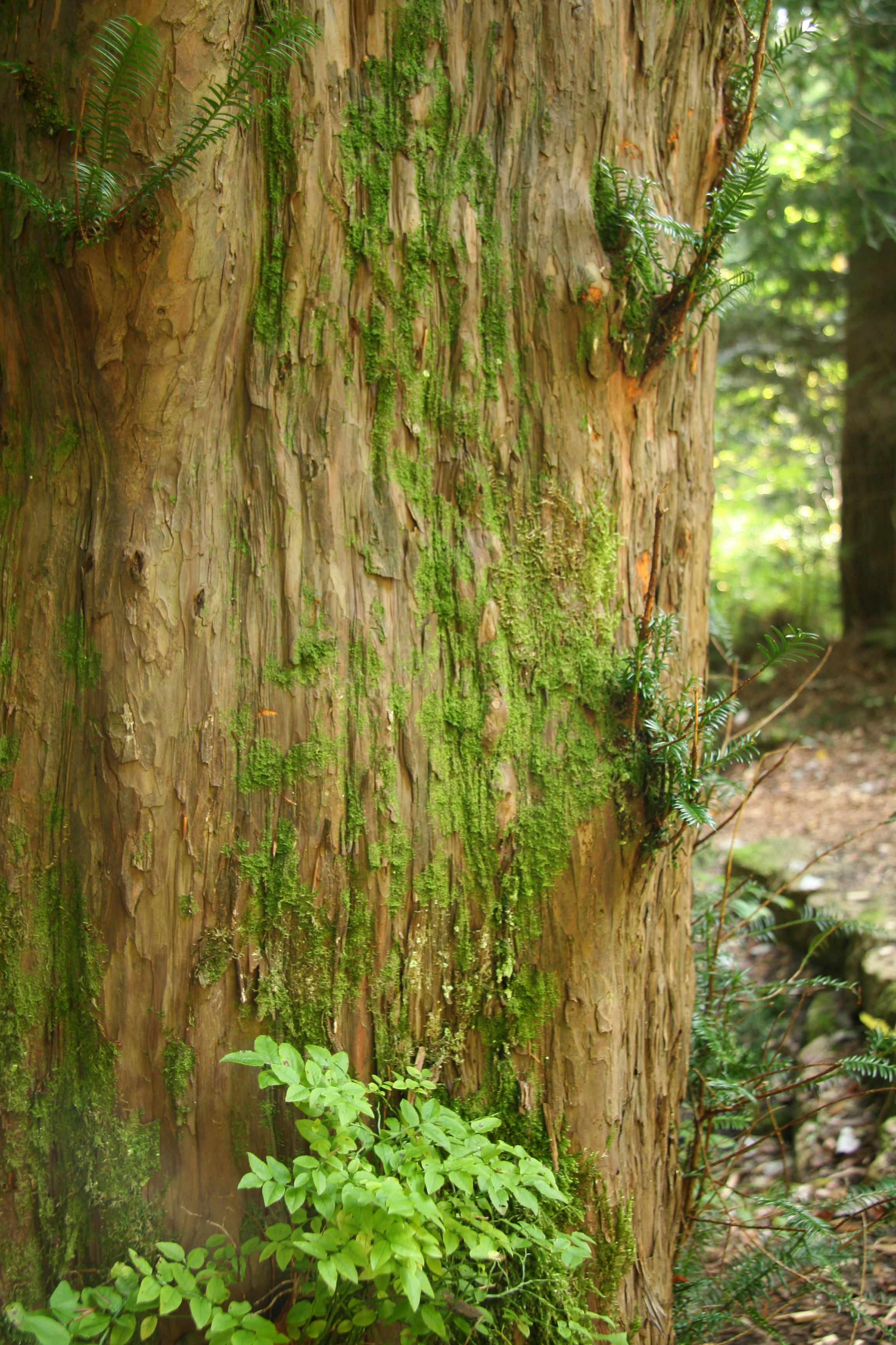 Taxus baccata in the Bavarian natural reserve "Paterzeller Eibenwald".